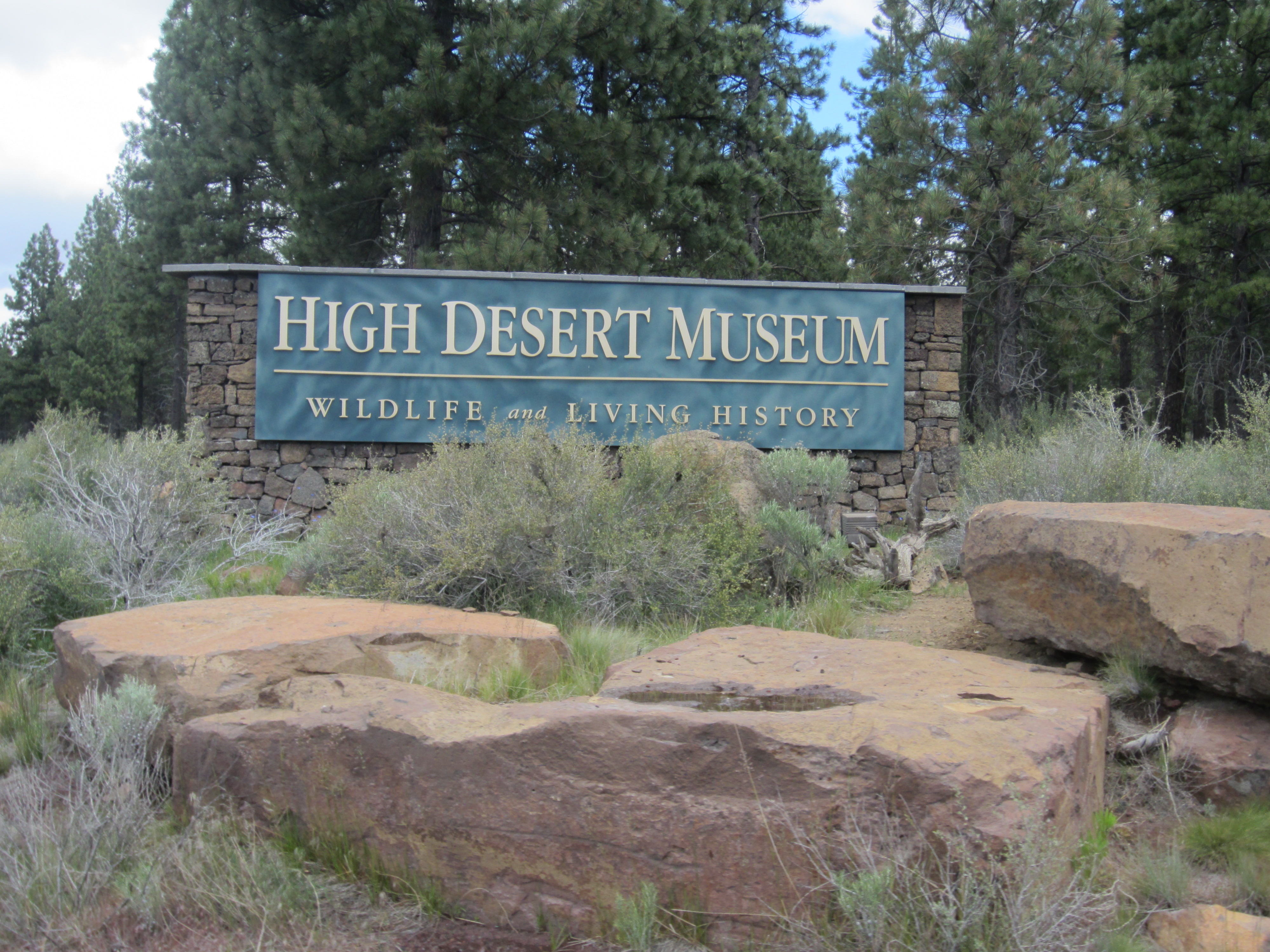 High Desert Museum, Central Oregon, United States (2013)